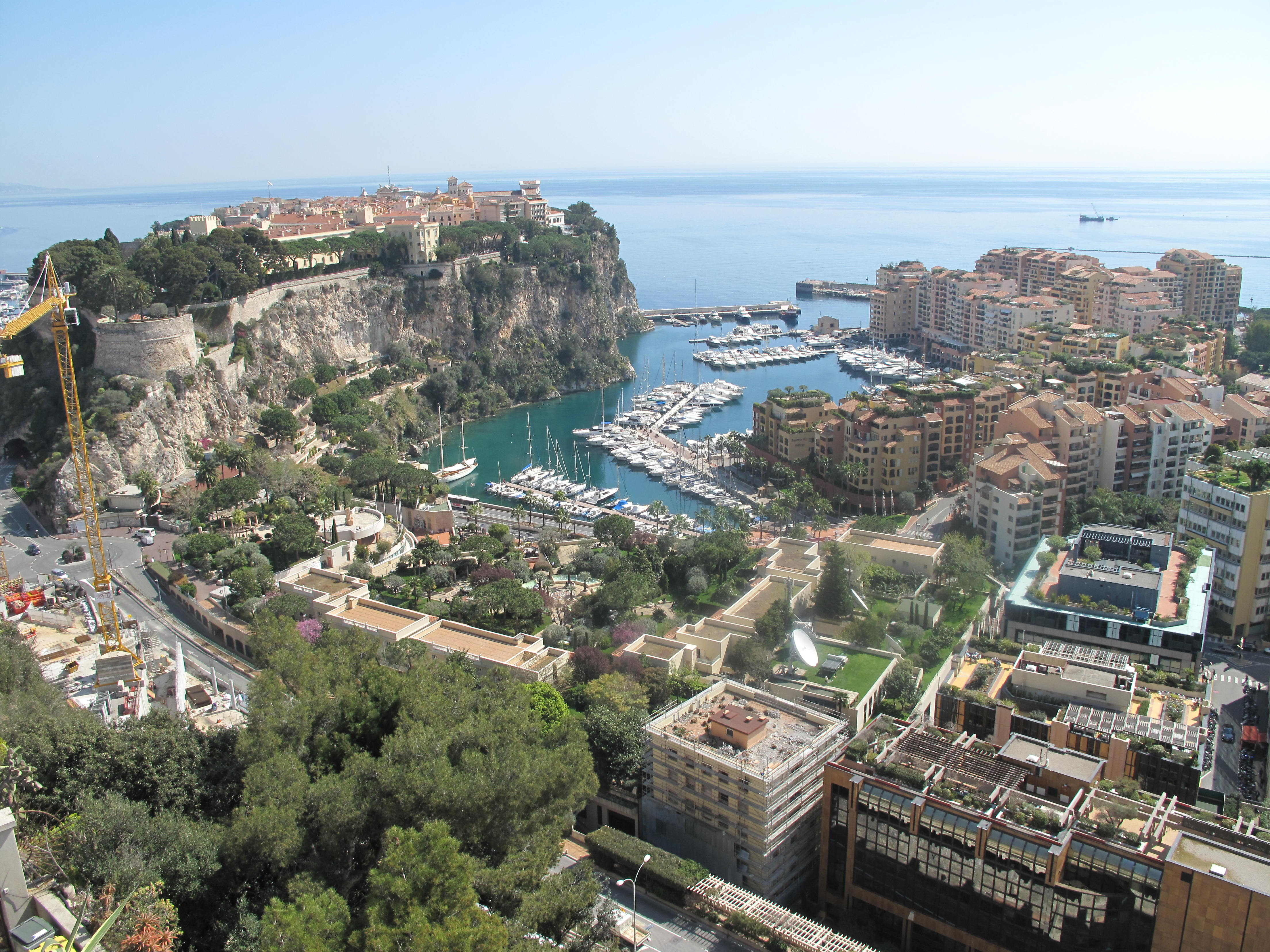 The Fontvielle marina from the exotic garden of Monaco.